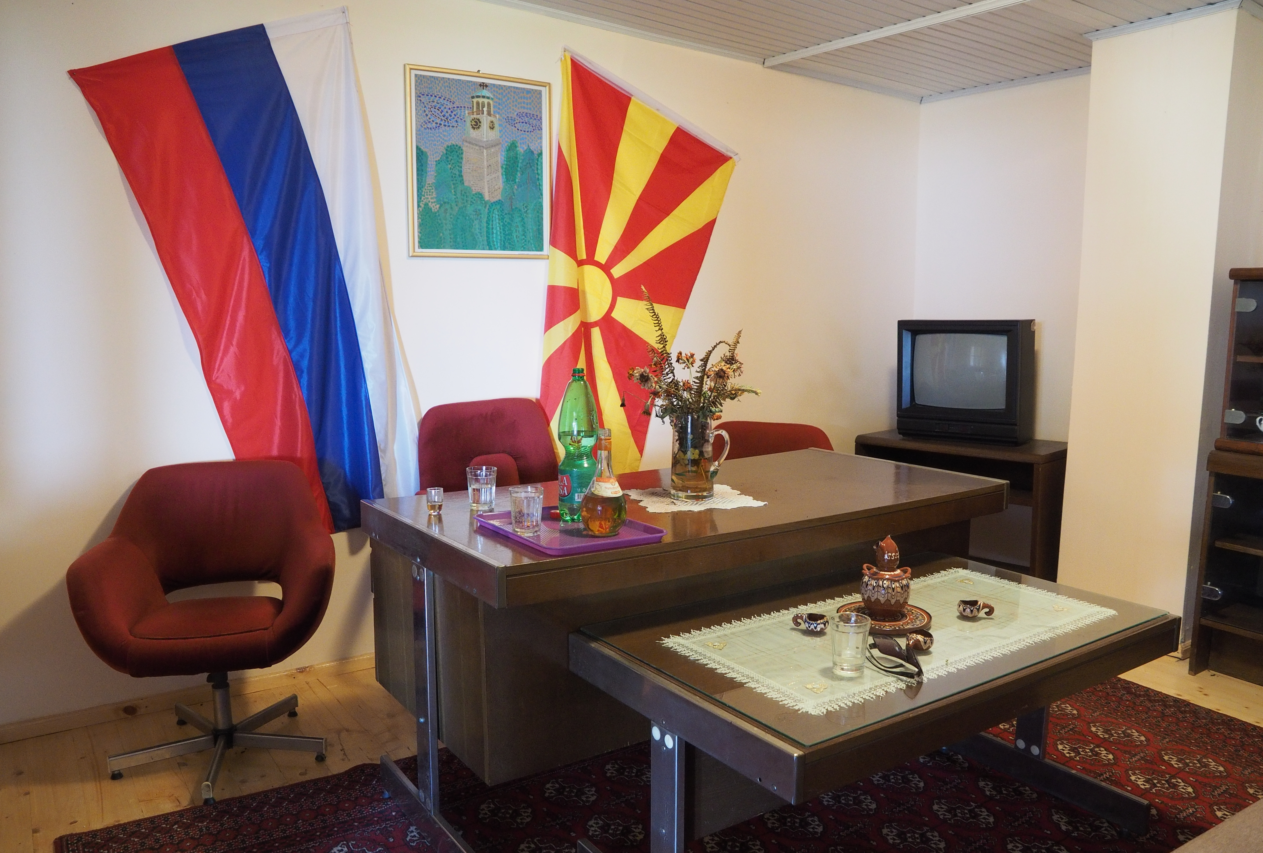 Summer residence - now museum room in Bukovo monastery (Bitola), where Russian consul Alexander Rostkovski. He was killed by Turks in 1903. Српски (ћирилица): Спомен соба у манастиру Буково (Битољ), где је летњу резиденцију имао руски конзул Александар Ростковски, до убиства 1903. године од Турака у Битољу.